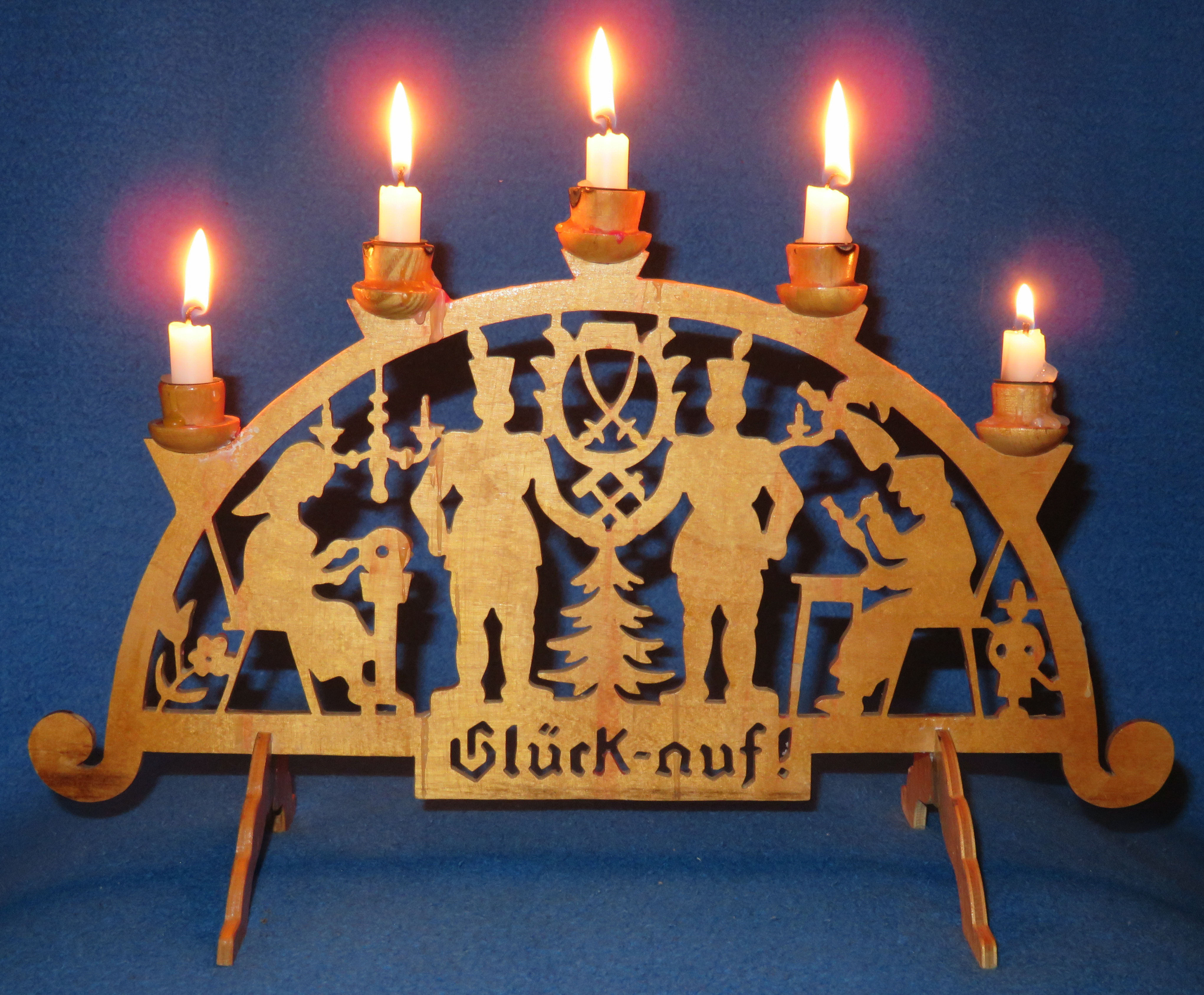 A “Schwibbogen” is a decorative candle-holder from the Ore Mountains (Erzgebirge) region of Saxony, Germany.